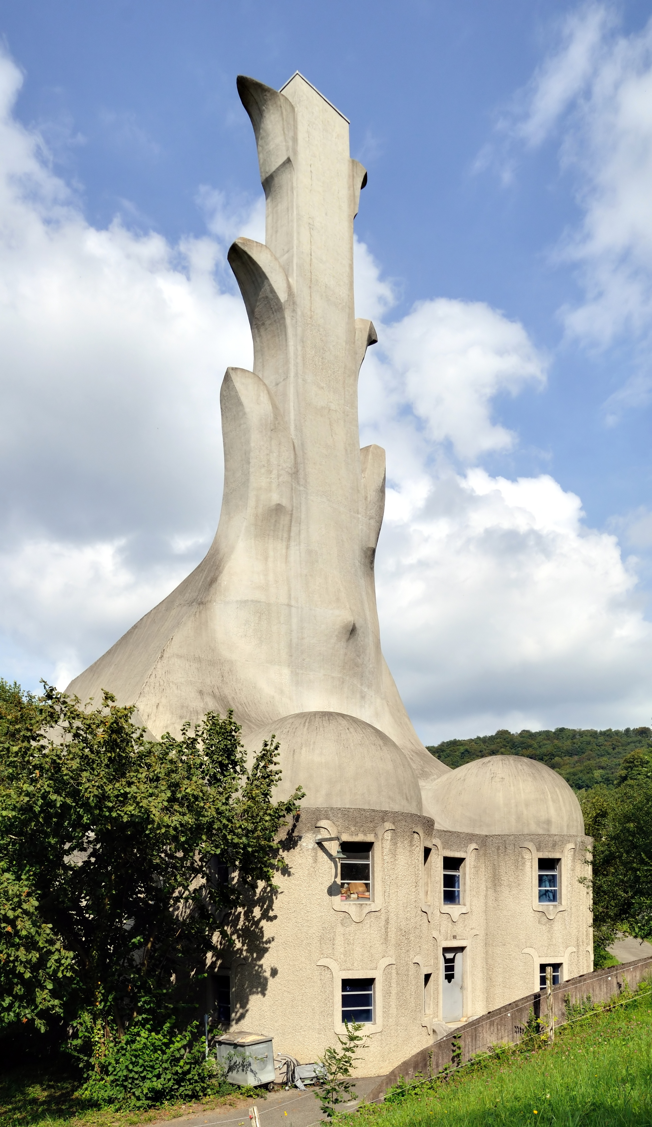 boiler house, year of construction 1915